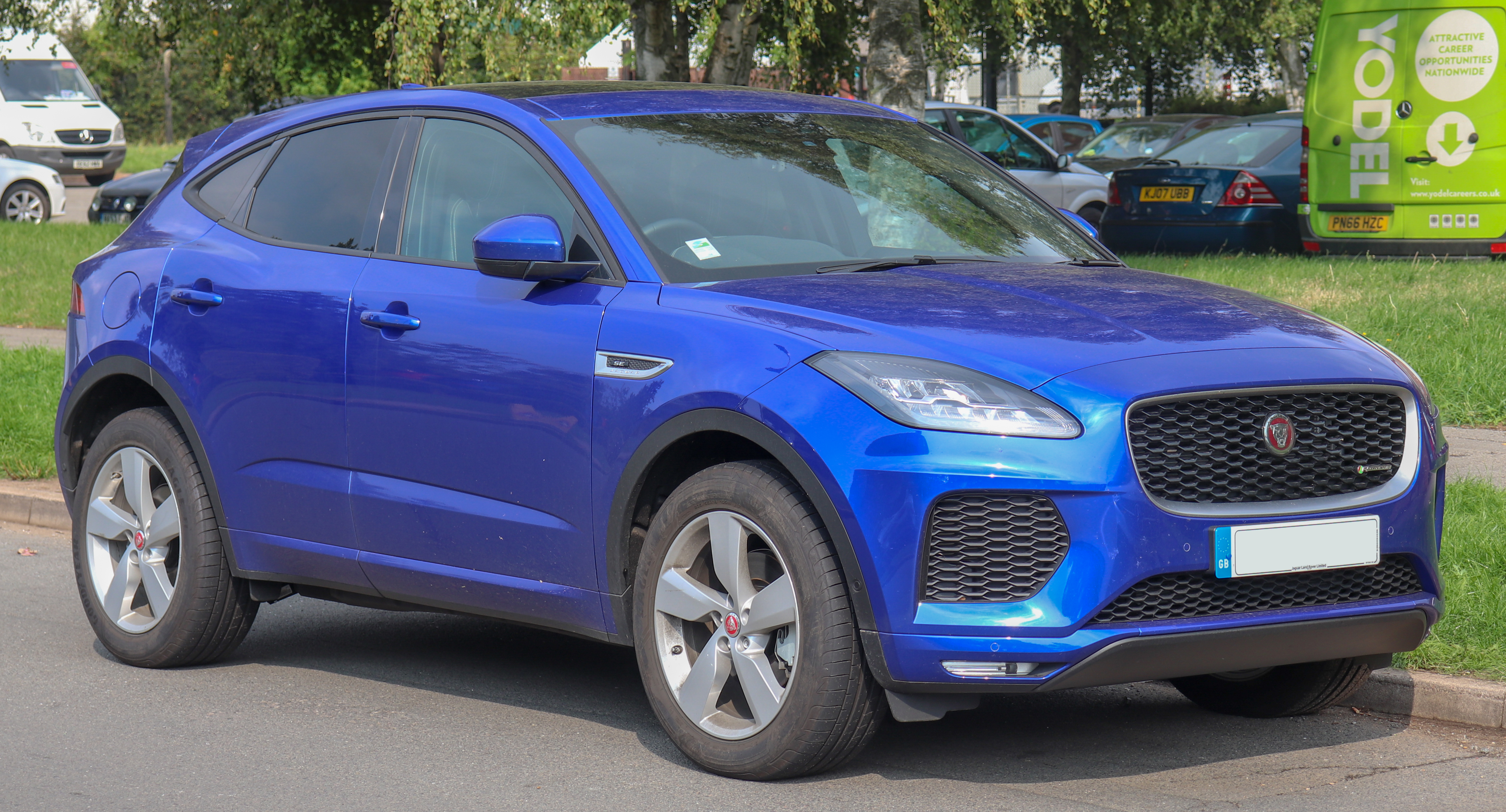 2018 Jaguar E-Pace R-Dynamic SE Diesel AWD 2.0 Front Taken in Leamington Spa